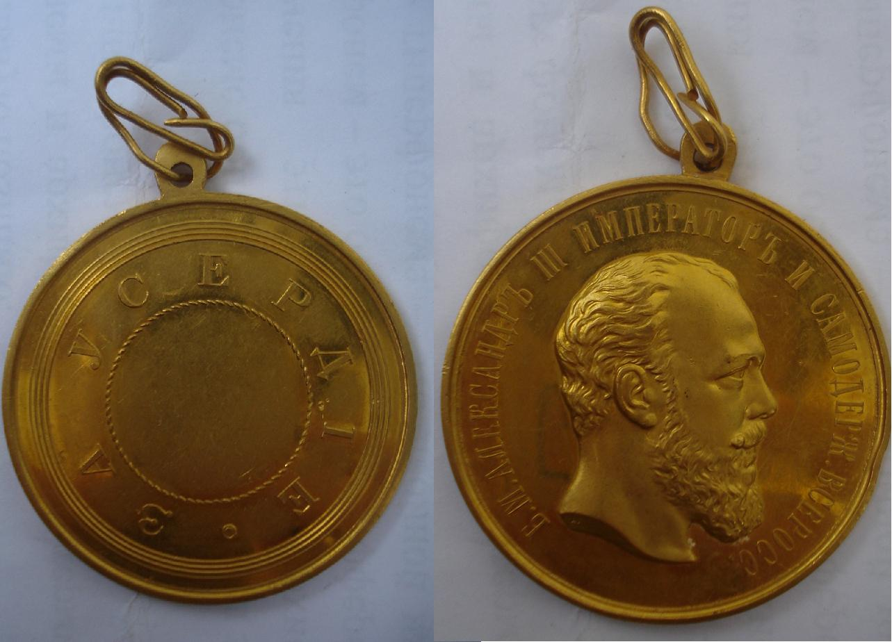 Этой медали был удостоен Павел Никонорович Дербенёв